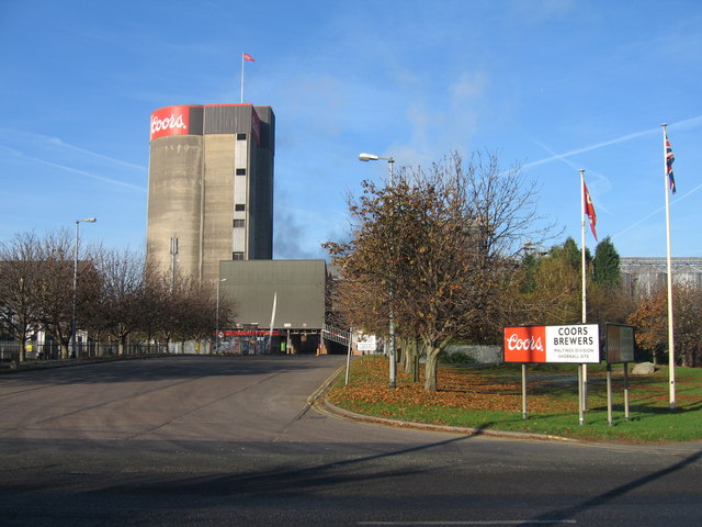 Coors Brewers Maltings, Burton upon Trent. Coors Brewers Maltings Division Shobnall Site, is located on Wellington Road. The maltings were originally built by the world famous Bass Brewery, which was taken over by the American brewery Coors, around the late 1990s. The barley that is malted to produce lagers and beers, arrives in articulated lorries (most seem to be from East Anglia) which enter the site by the raised barrier. The barley is stored in corrugated steel silos - some of which can be seen to the right - and is then malted in the large concrete tower, before being taken across town to the brewery.